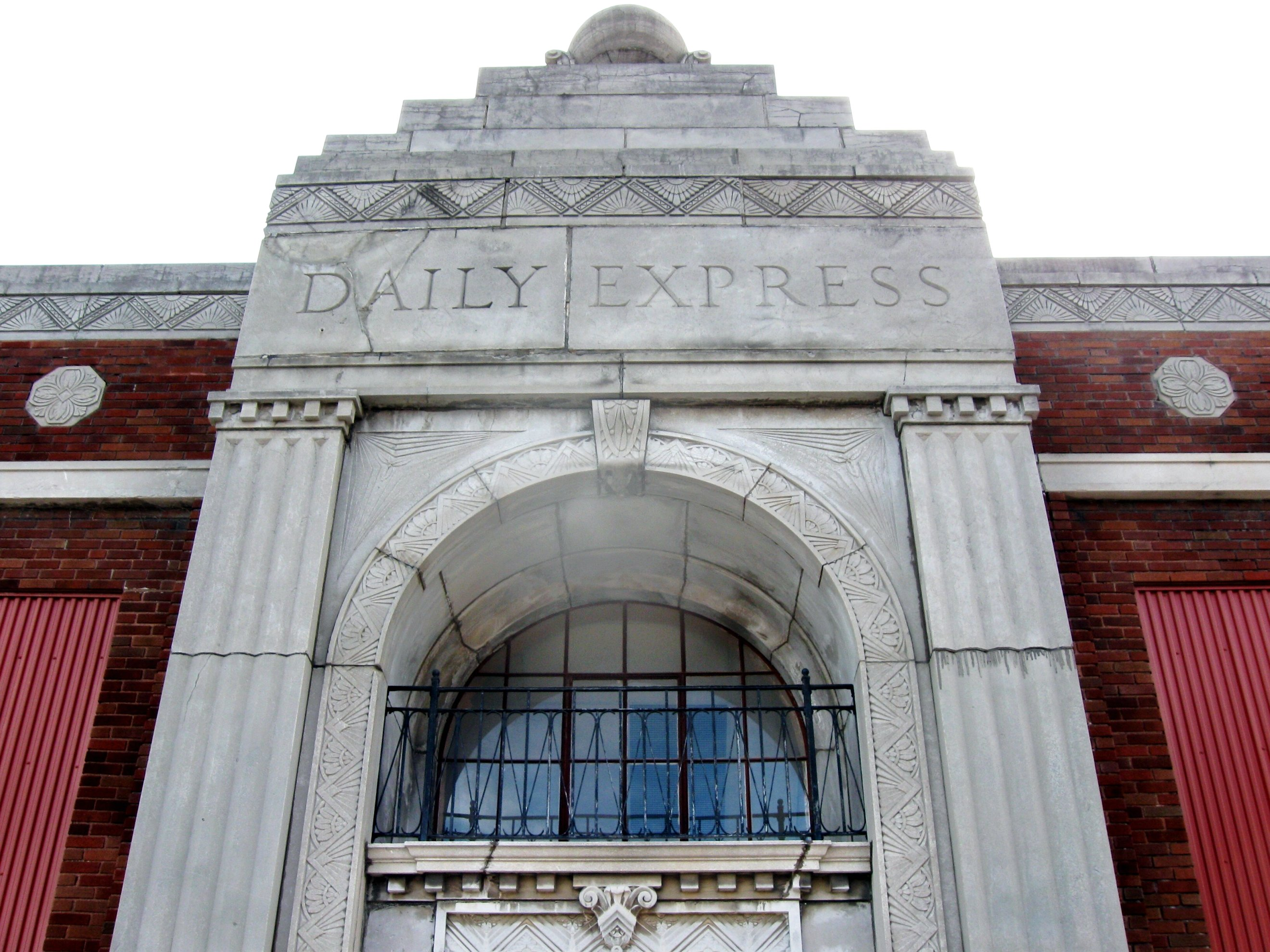 Kirksville Daily Express building in Kirksville, Missouri. This art deco style building was constructed in 1930 to house one of the towns newspapers. Photo taken on 14 September 2009. Photo used courtesy of Catfilmnoir a.k.a. Carol Baier via Flickr.